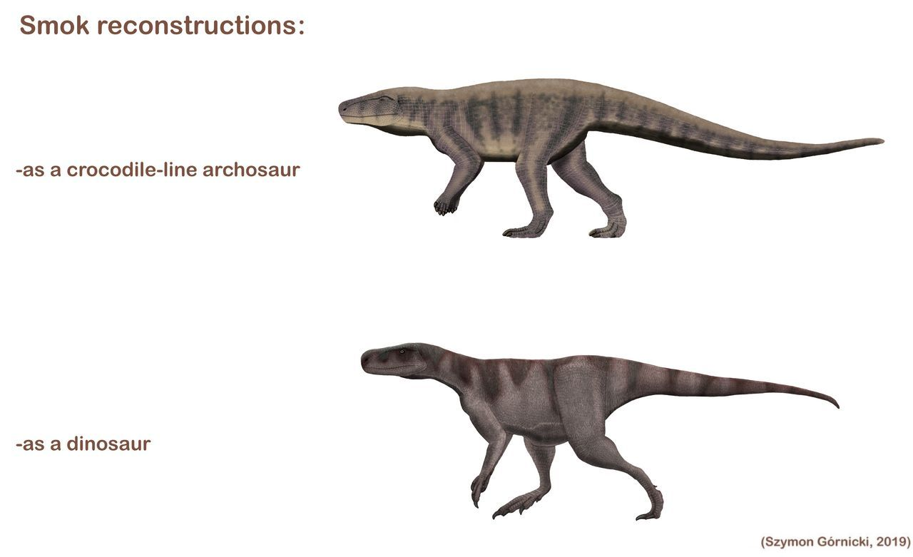 Comparison of two Smok reconstructions by Szymon Górnicki